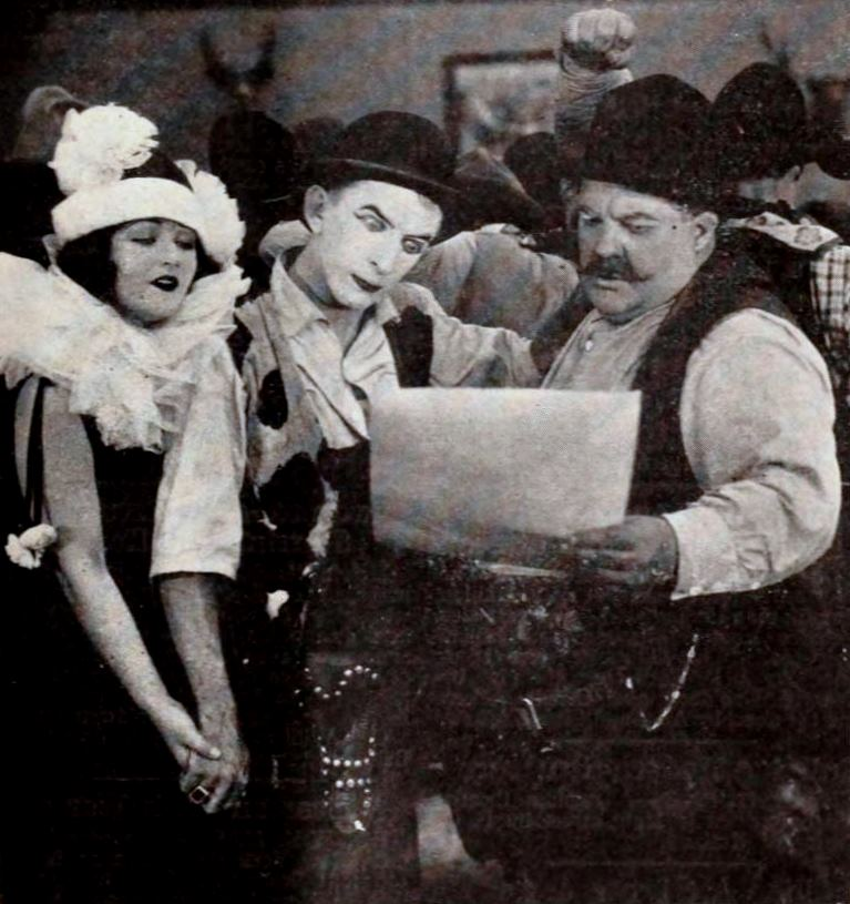 Still from the American comedy film The Fall Guy (1921) with Norma Nichols, Larry Semon, and Oliver Hardy, on page 71 of the June 18, 1921 Exhibitors Herald.